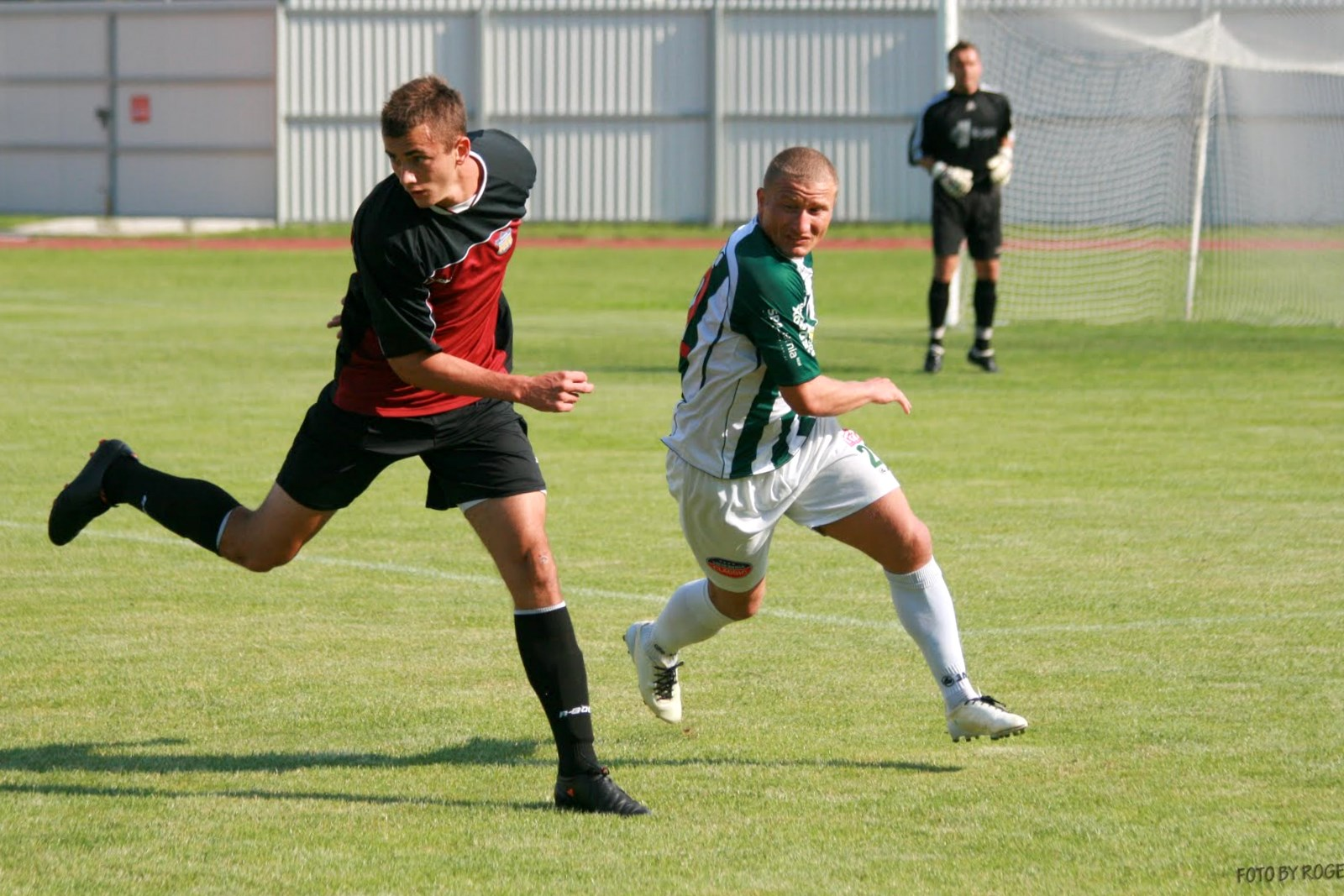 Friendly match between Warta Poznań (white-green) and Elana Toruń (marron-black)